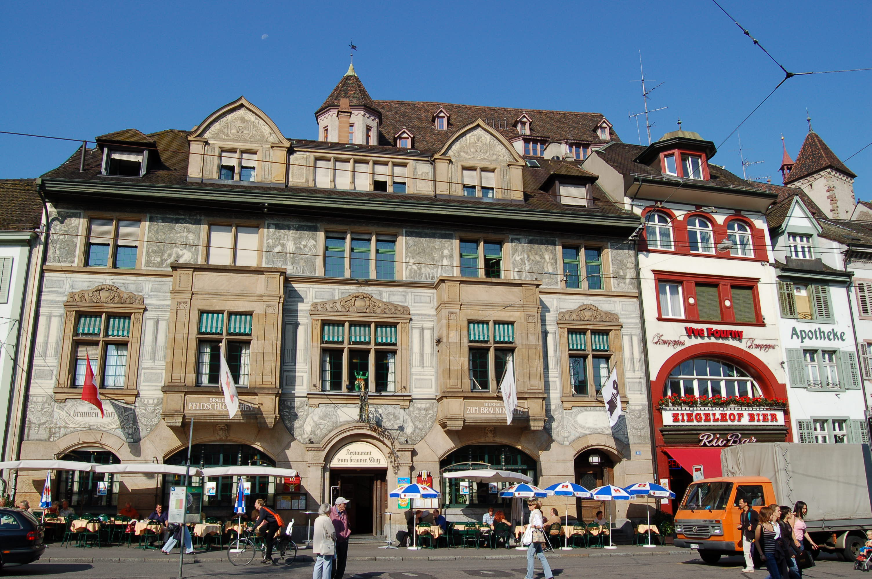 Basle, Switzerland